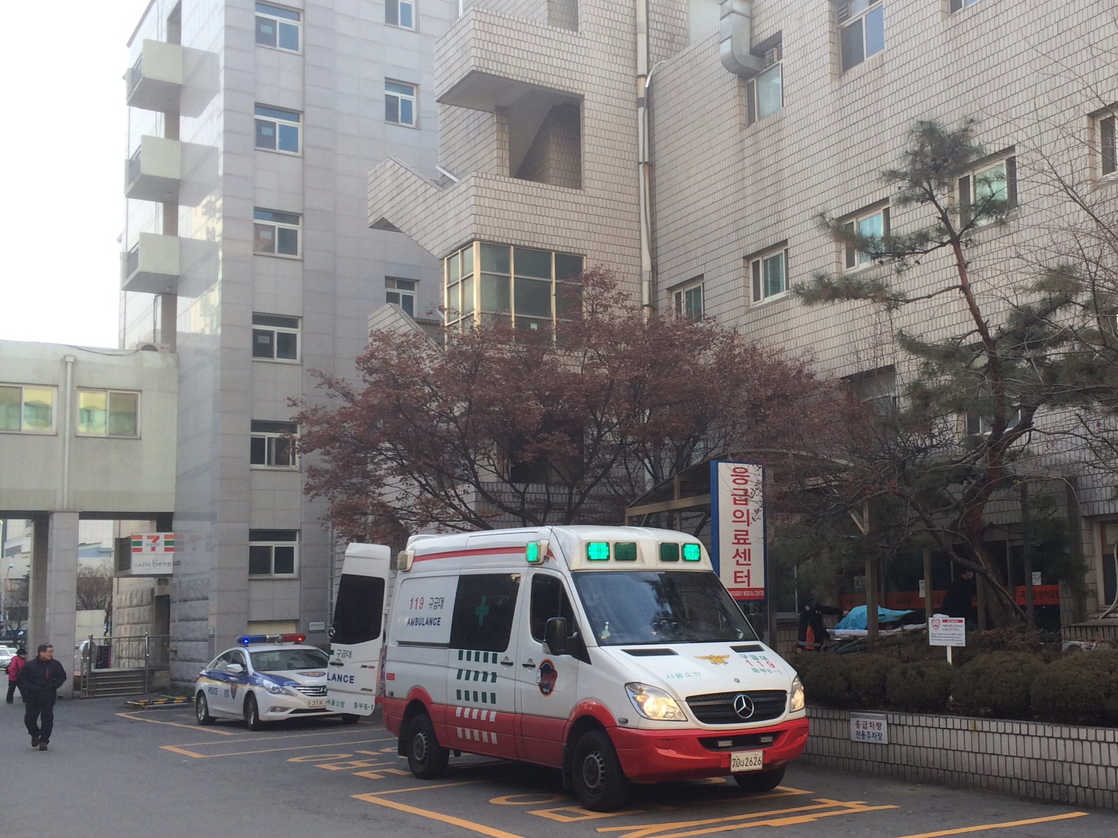 A patient is arriving at the emergency department of National Medical Center, Seoul, South Korea.